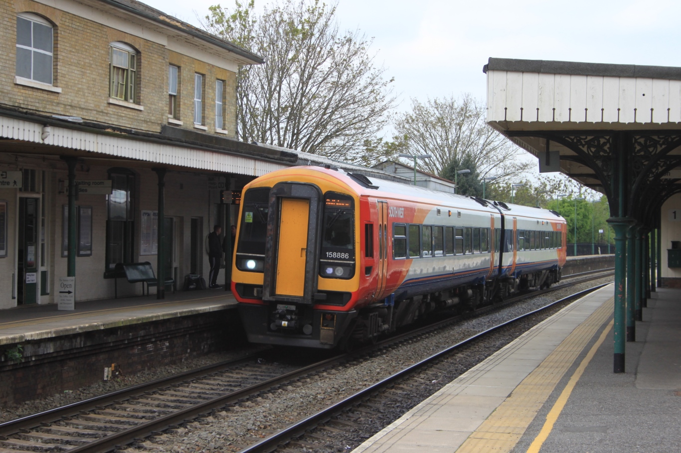 A South West Train service from Romsey to Salisbury is ready to start its journey. But Salisbury is behind it! 158886 will head east from Romsey to Eastleigh then circle round through Southampton before passing through this same platform at Romsey to reach its destination.